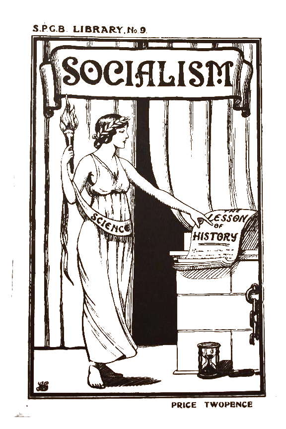 Spgb-library-no-9-socialism-1920-pamphlet-cover